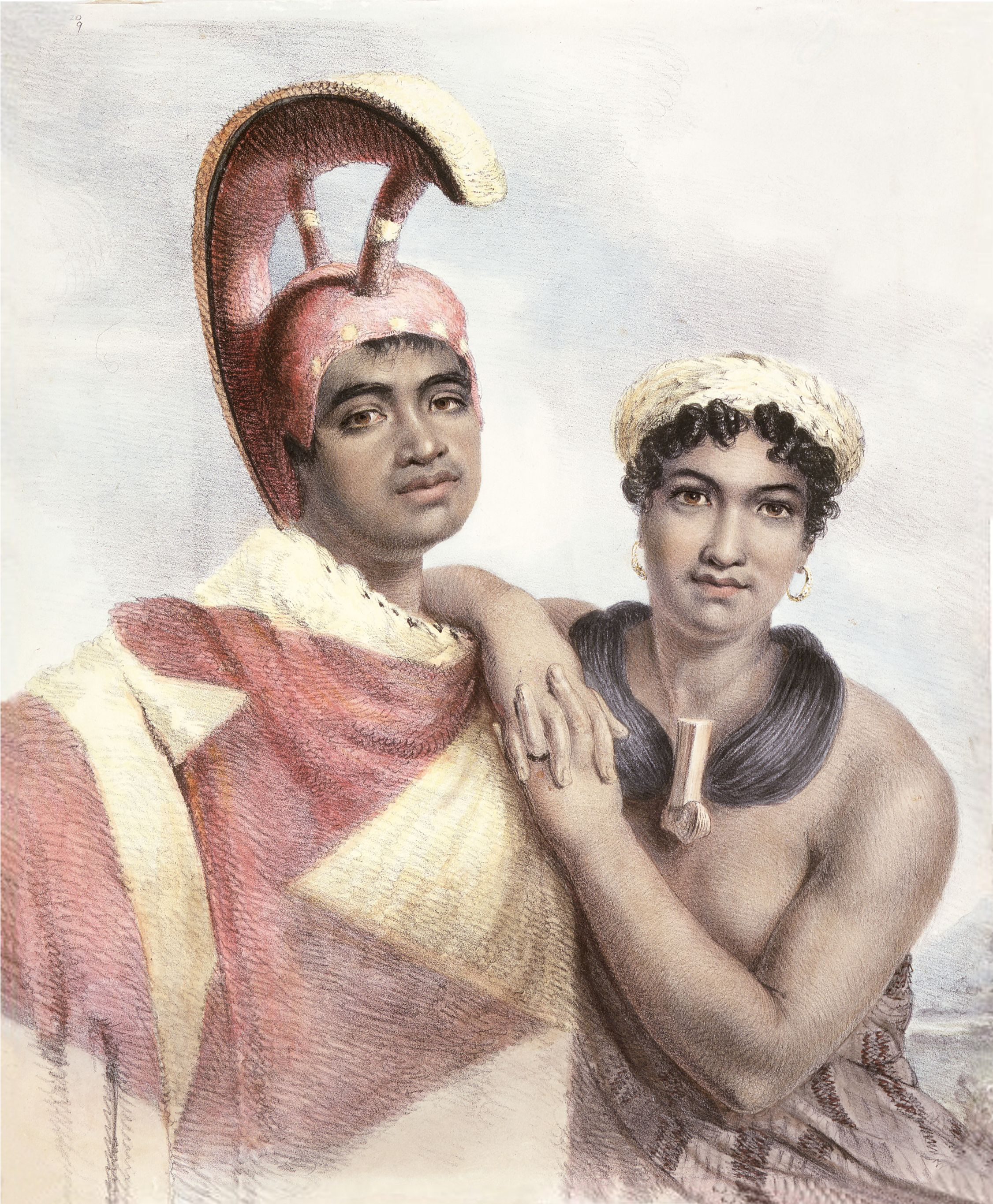 Na Poki, Prime Minister of the Sandwich Islands (actually Governor of Oahu), and his wife, Liliha. Printed by C. Hullmandel; drawn on stone from the original painting by John Hayter. London 1824